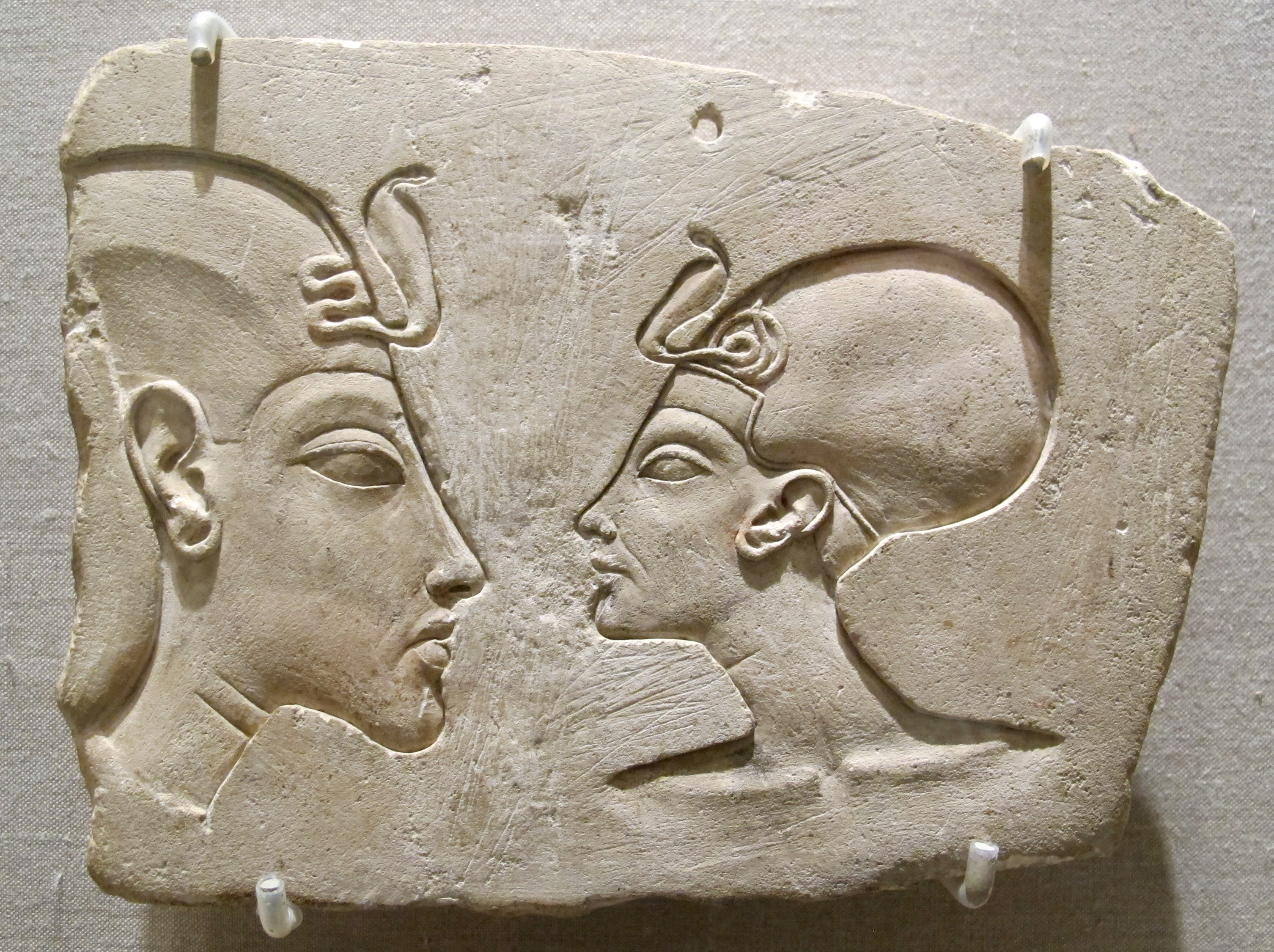 Egyptian antiquities in the Brooklyn Museum